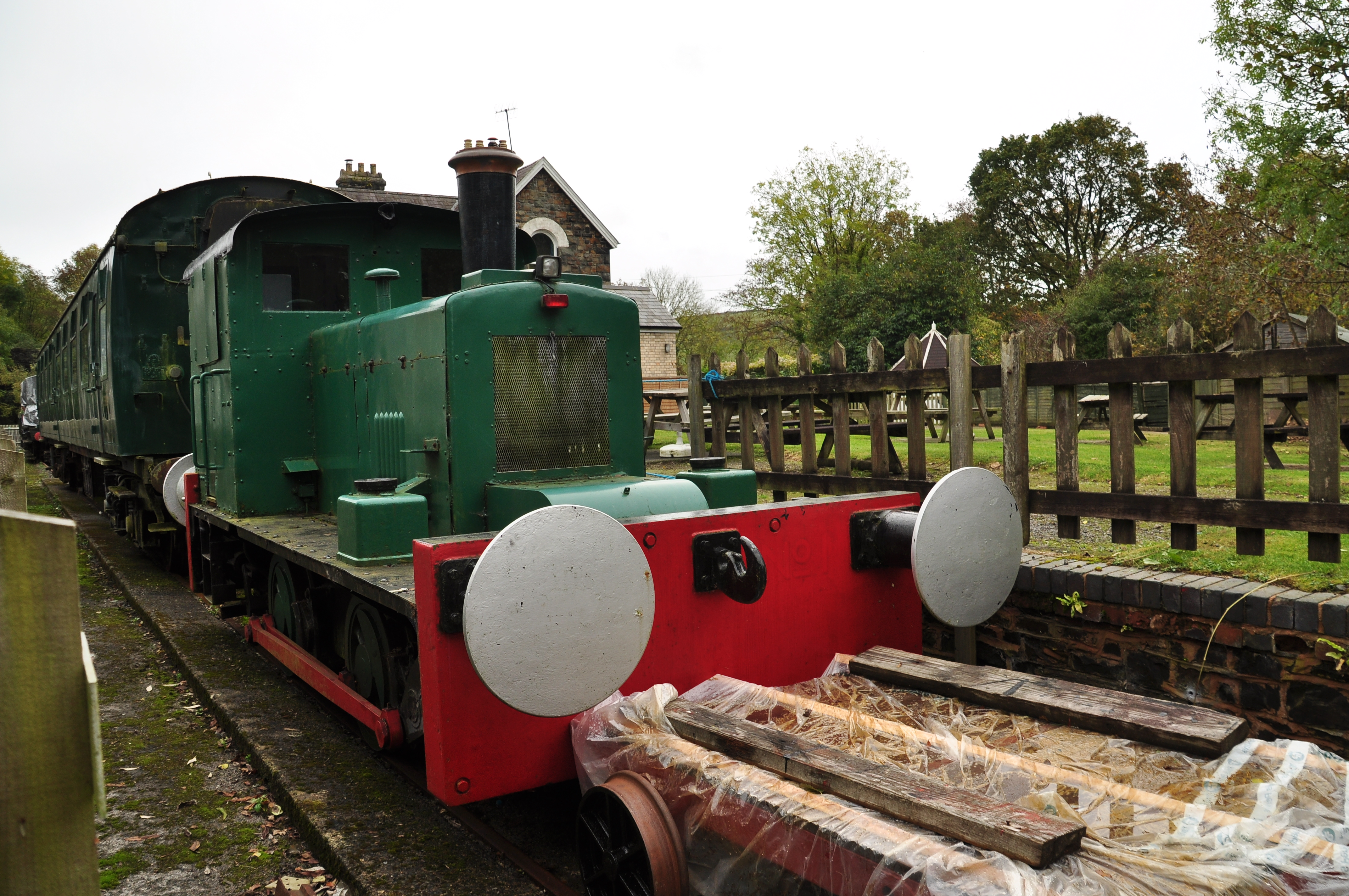 Torrington railway station